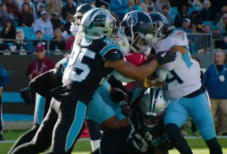 Eric Reid 2019. Image from video Derrick Henry Puts Titans on the Board | Touchdown Tuesday, ~ 00:10